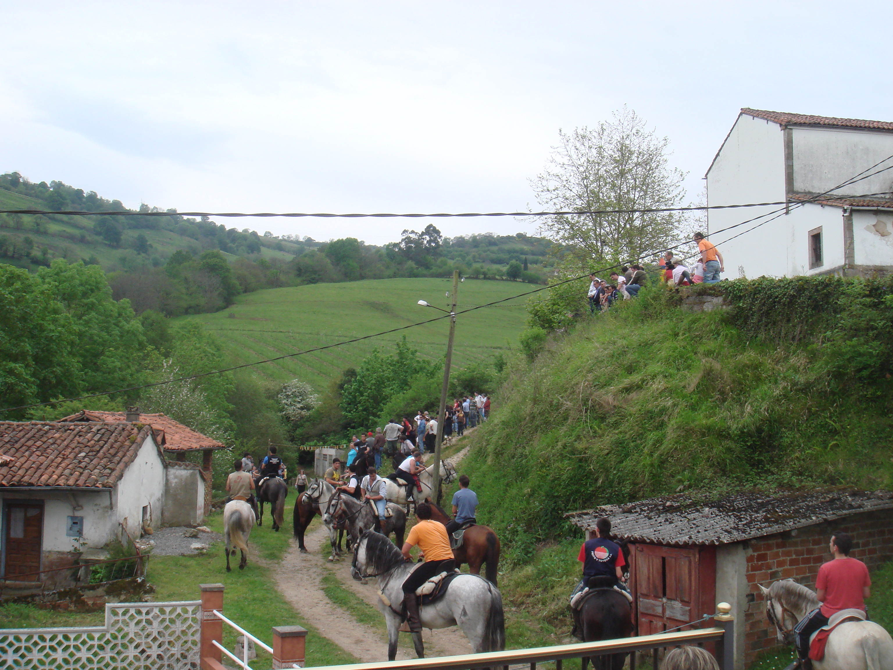 fiesta